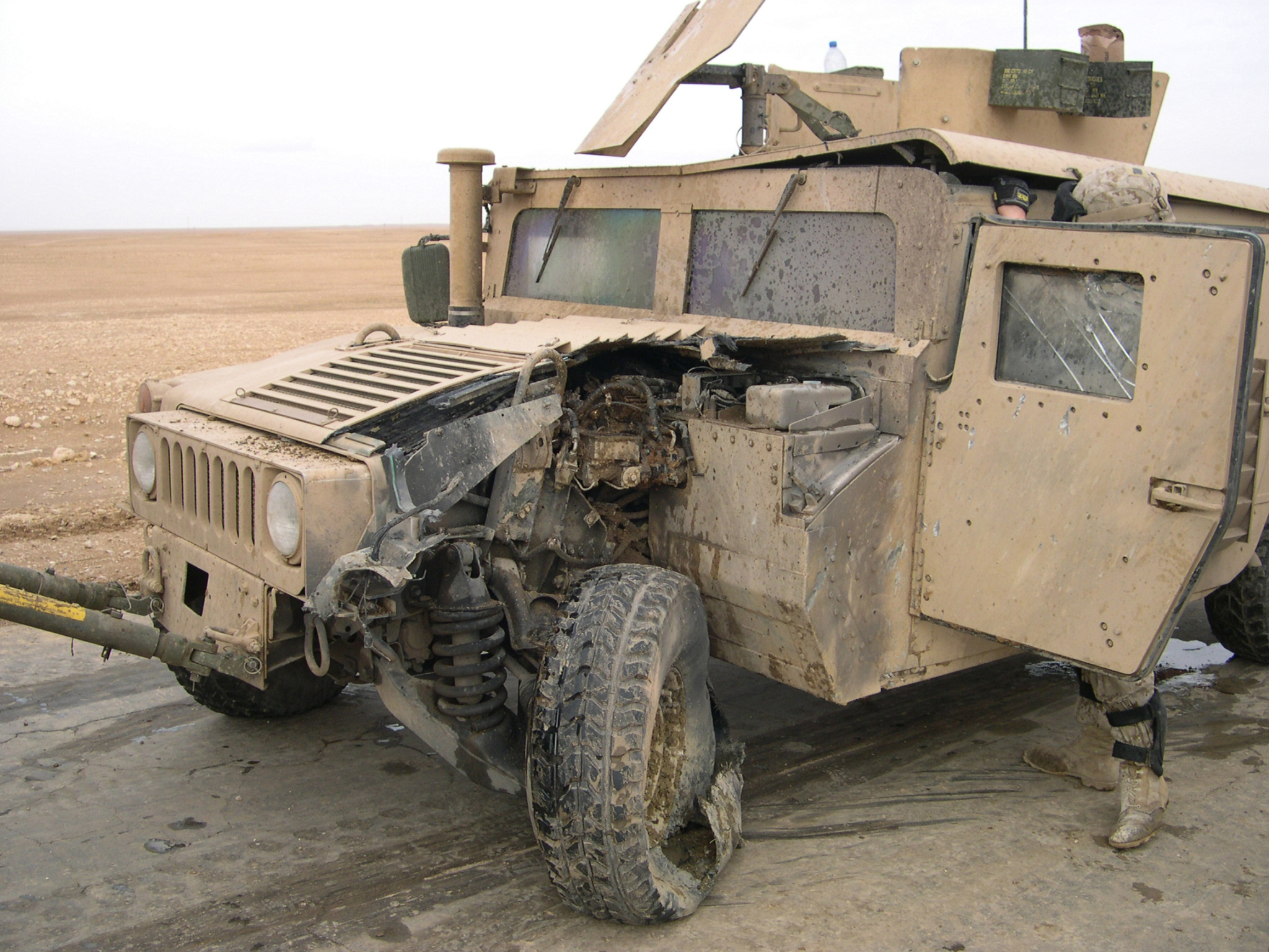 AL ASAD, Iraq - A humvee shows damage from a mine strike while on convoy in Iraq. The vehicle was in-tow when it struck the mine, and no injuries resulted from the incident. (Photo courtesy of Sgt. Rick Noble.) -30